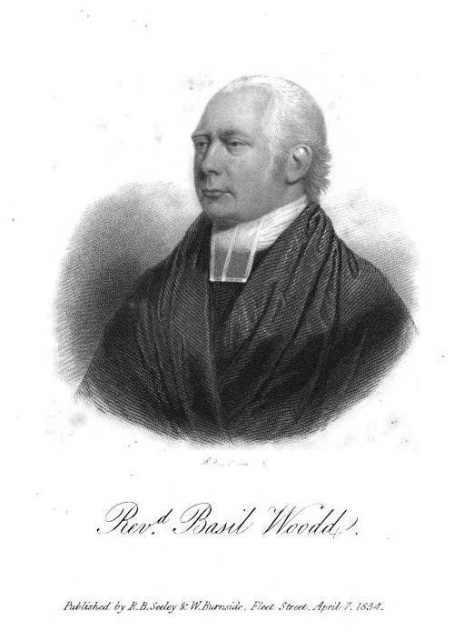 Portrait of Basil Woodd (1760–1831), English cleric.